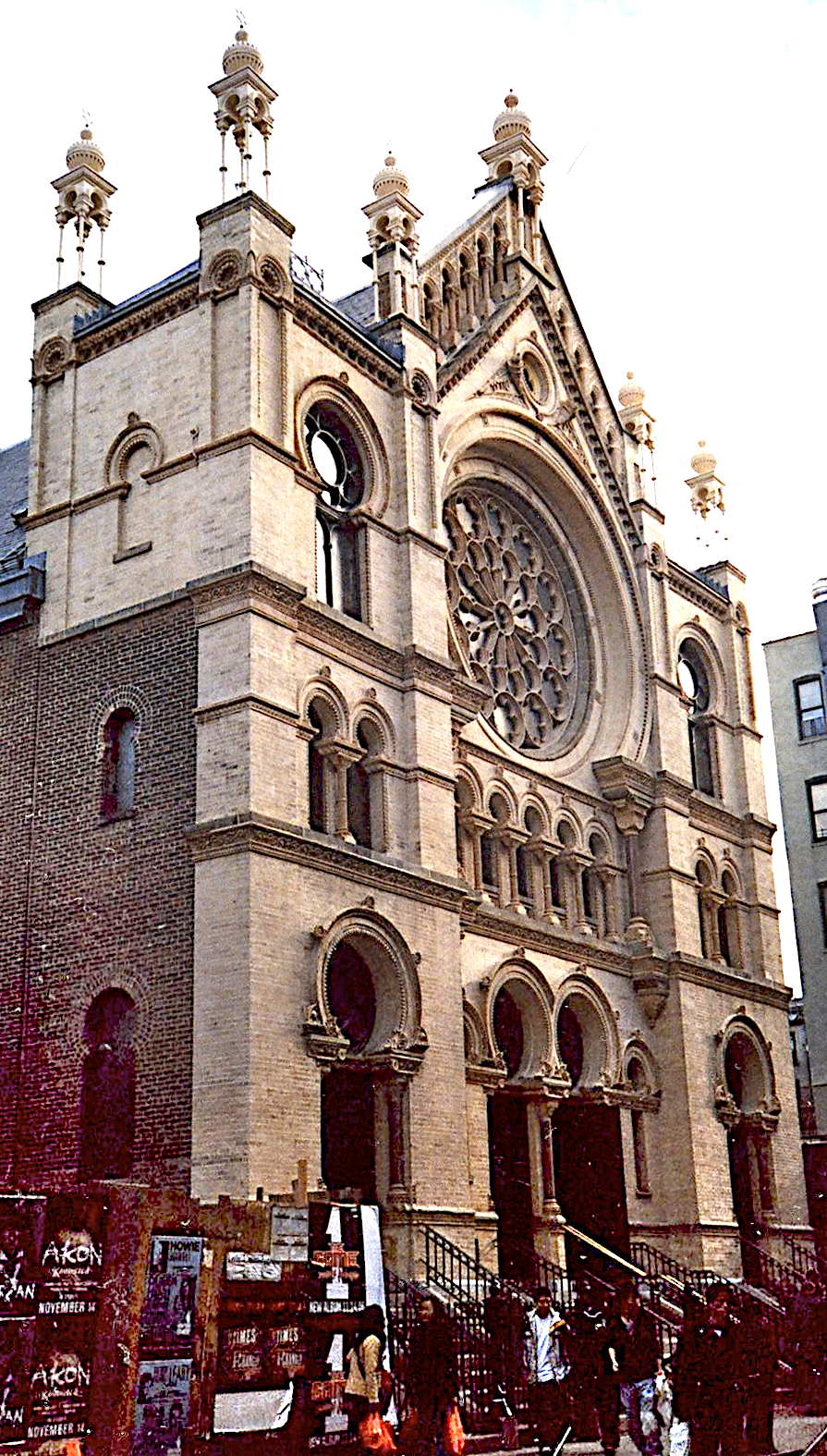 Eldridge Street Synagogue. (photo by Viktor Korchenov)